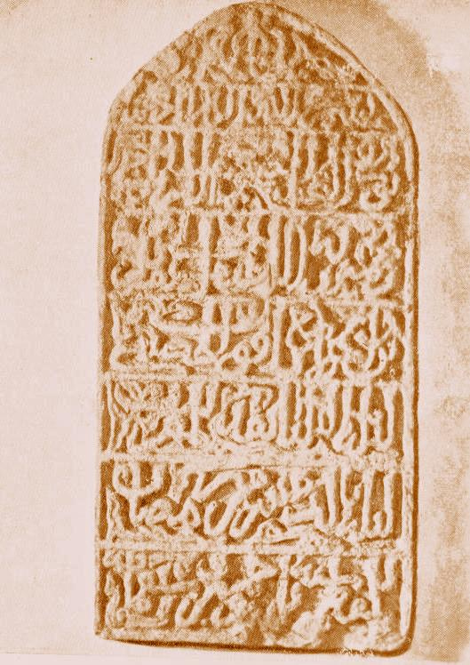 14th century Somali-Arabo stonetablet - Somalia Museum